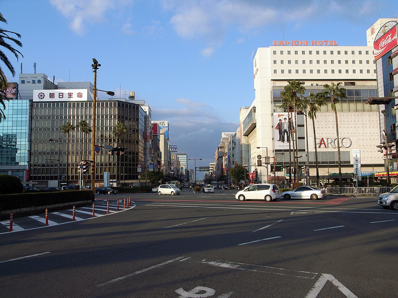 Chuo Avenue, the main street of Oita City, Oita Pref., Japan / 中央通り（大分県大分市）